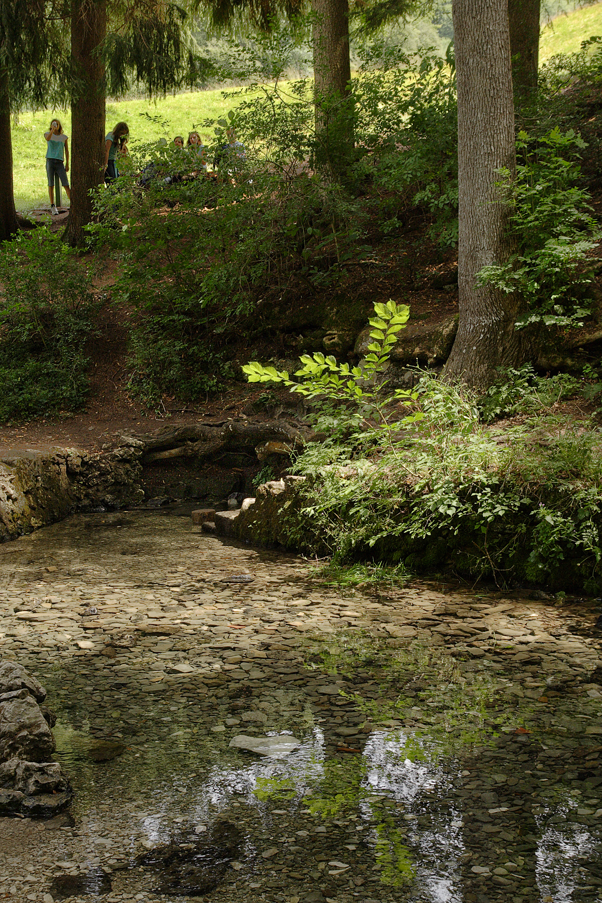 Karst spring Filsursprung, Swabian Alb, spring between the two strata Ox(fordium)1 / Ox(fordium)2 in a dry valley of the Ur-Fils (Miocene)